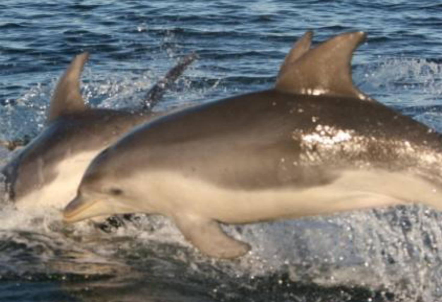 Tursiops australis sp. nov. external morphology and colouration. Distinct tri-colouration, extension of ventrum white above eye, dorsal blaze, ‘stubby’ rostrum and falcate dorsal fin.